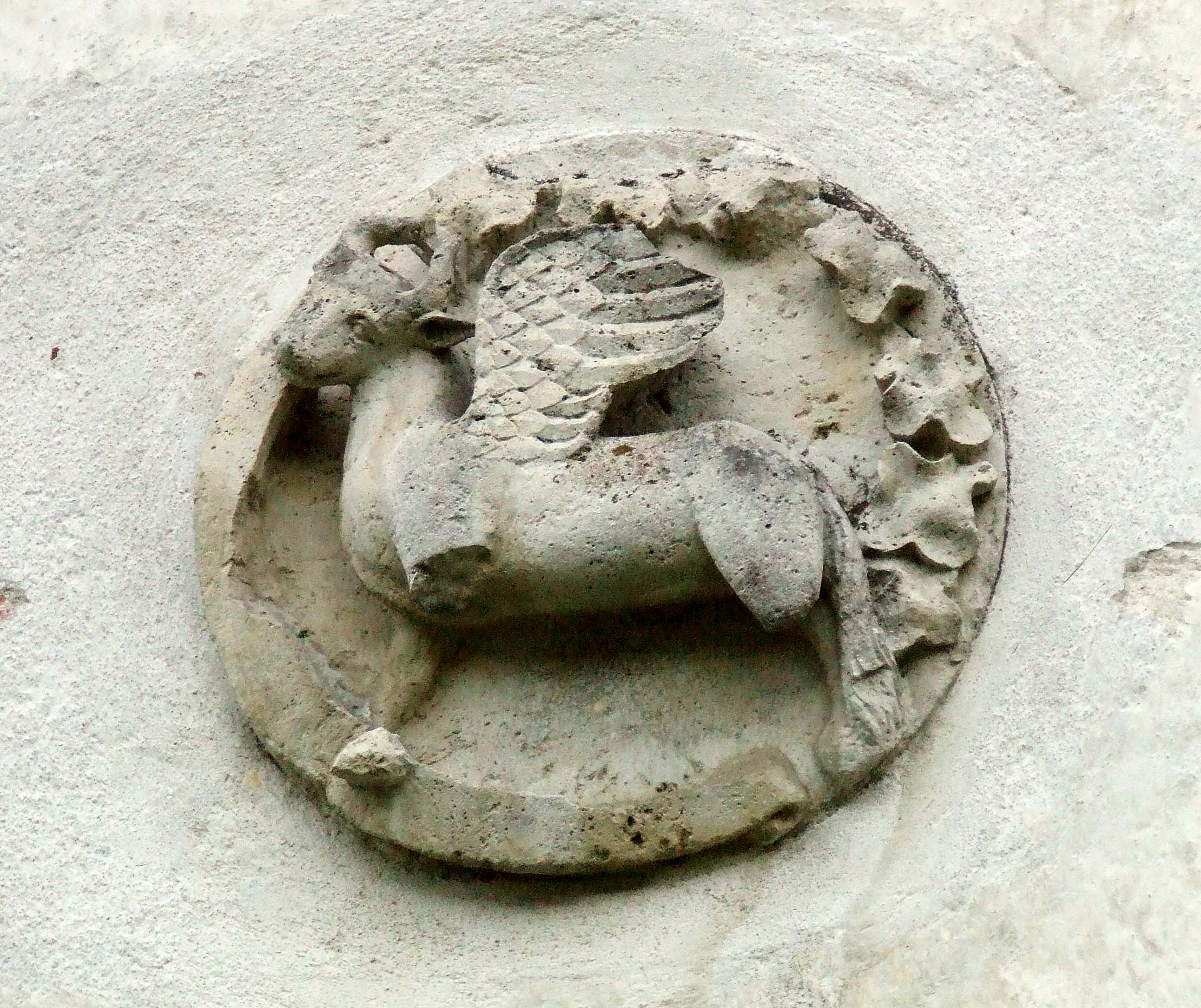 A relief of the winged bull (ox), the symbol of St. Luke, in a medaillon. Žiče Monastery.